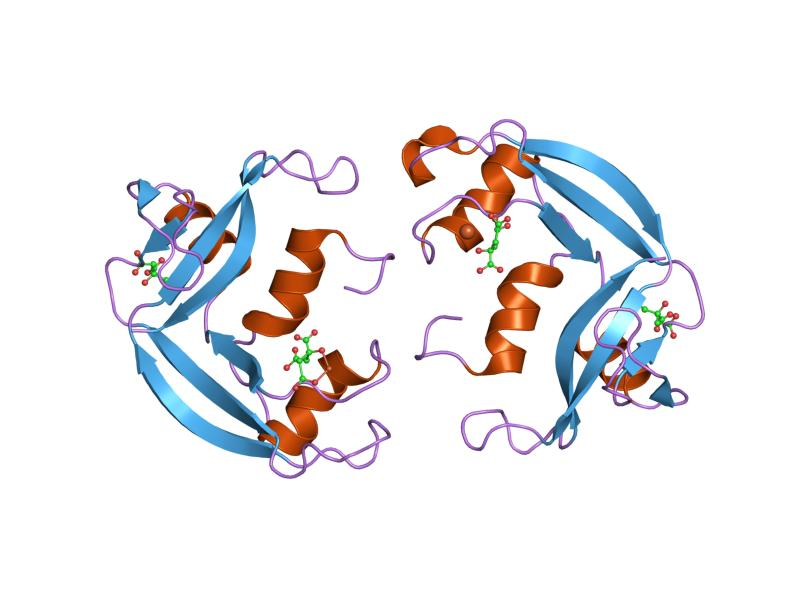 Cartoon representation of the molecular structure of protein registered with 1dyt code.